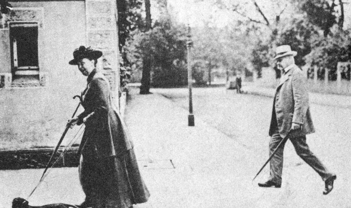 Chief of the German General Staff during World War I Paul von Hindenburg as a pensioner in 1920. On the left hand side: Mrs. von Hindenburg.